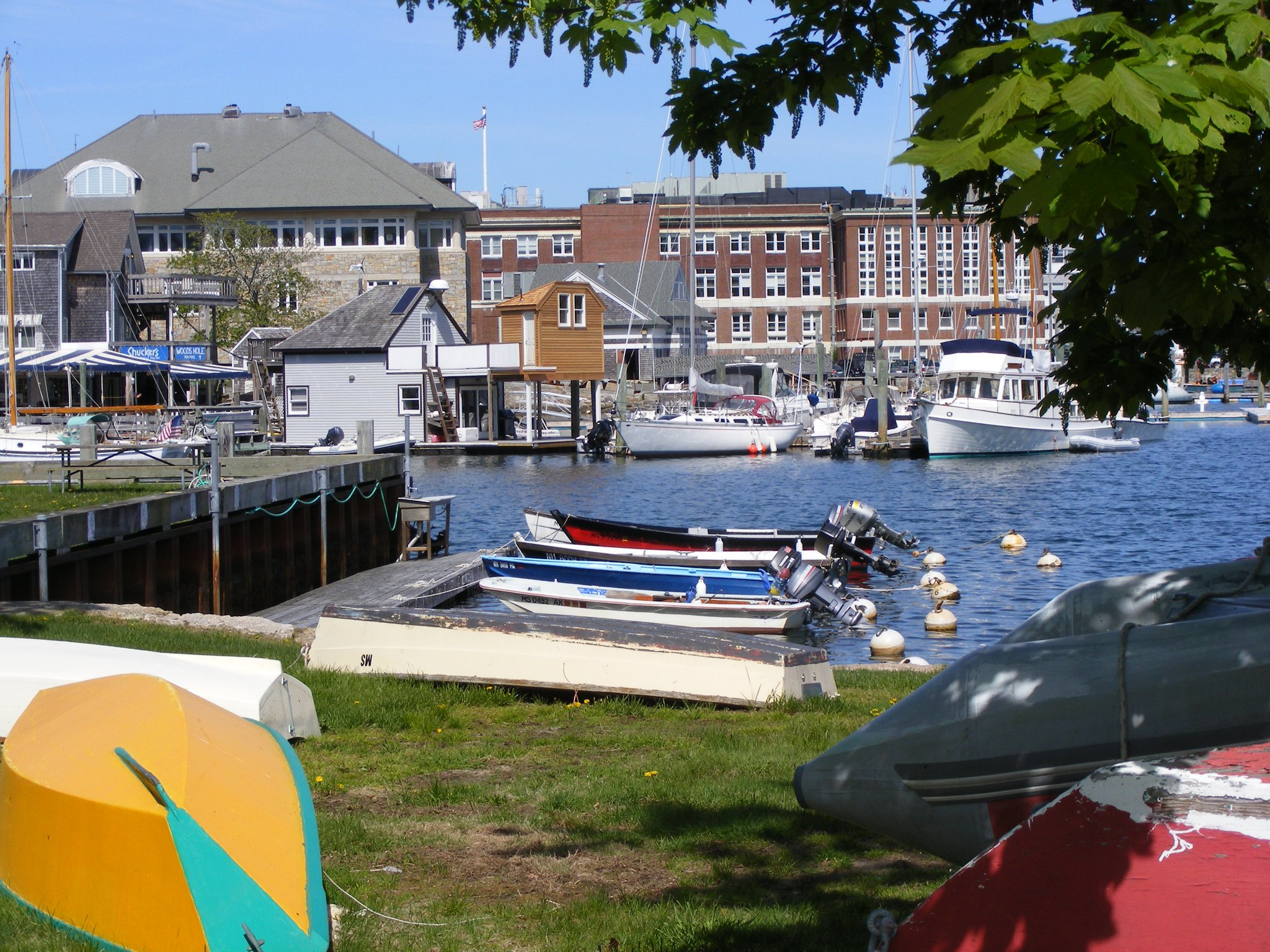 Marine Biological Laboratory, Woods Hole, Massachusetts.